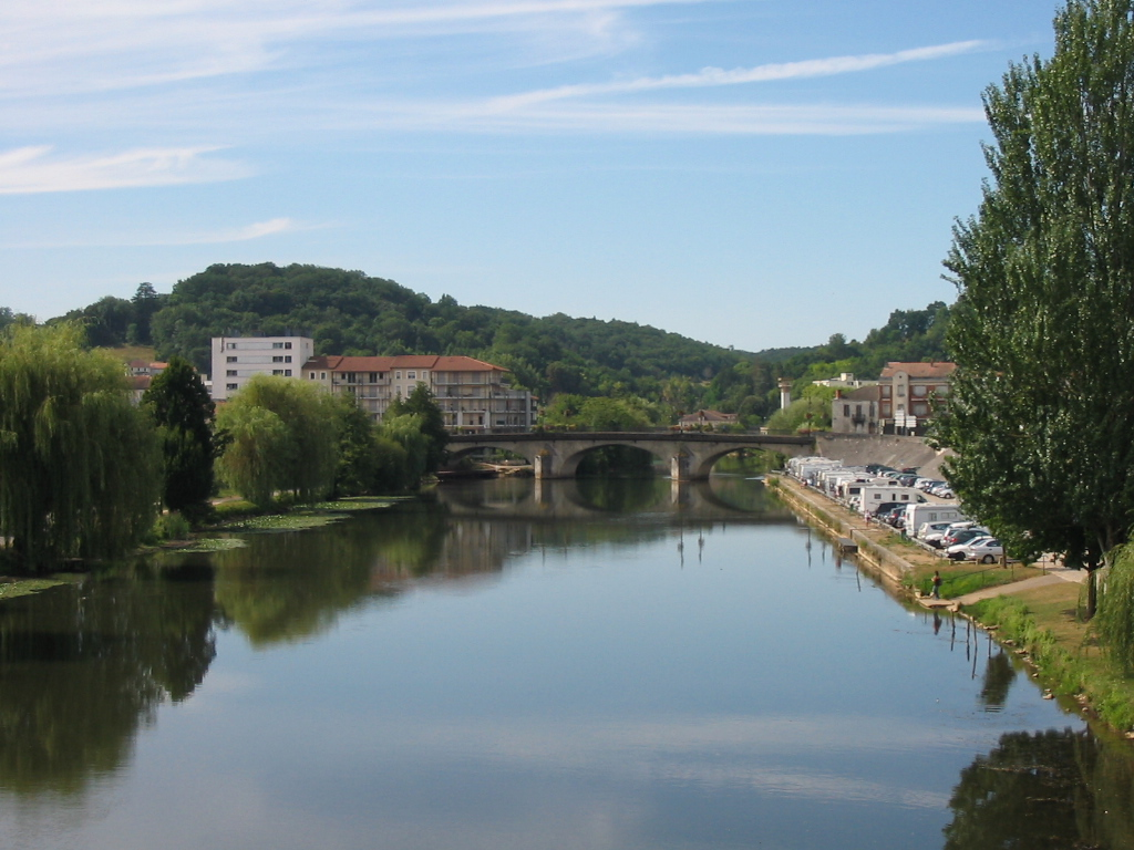 Valley of Isle river in Perigueux (South Western France)